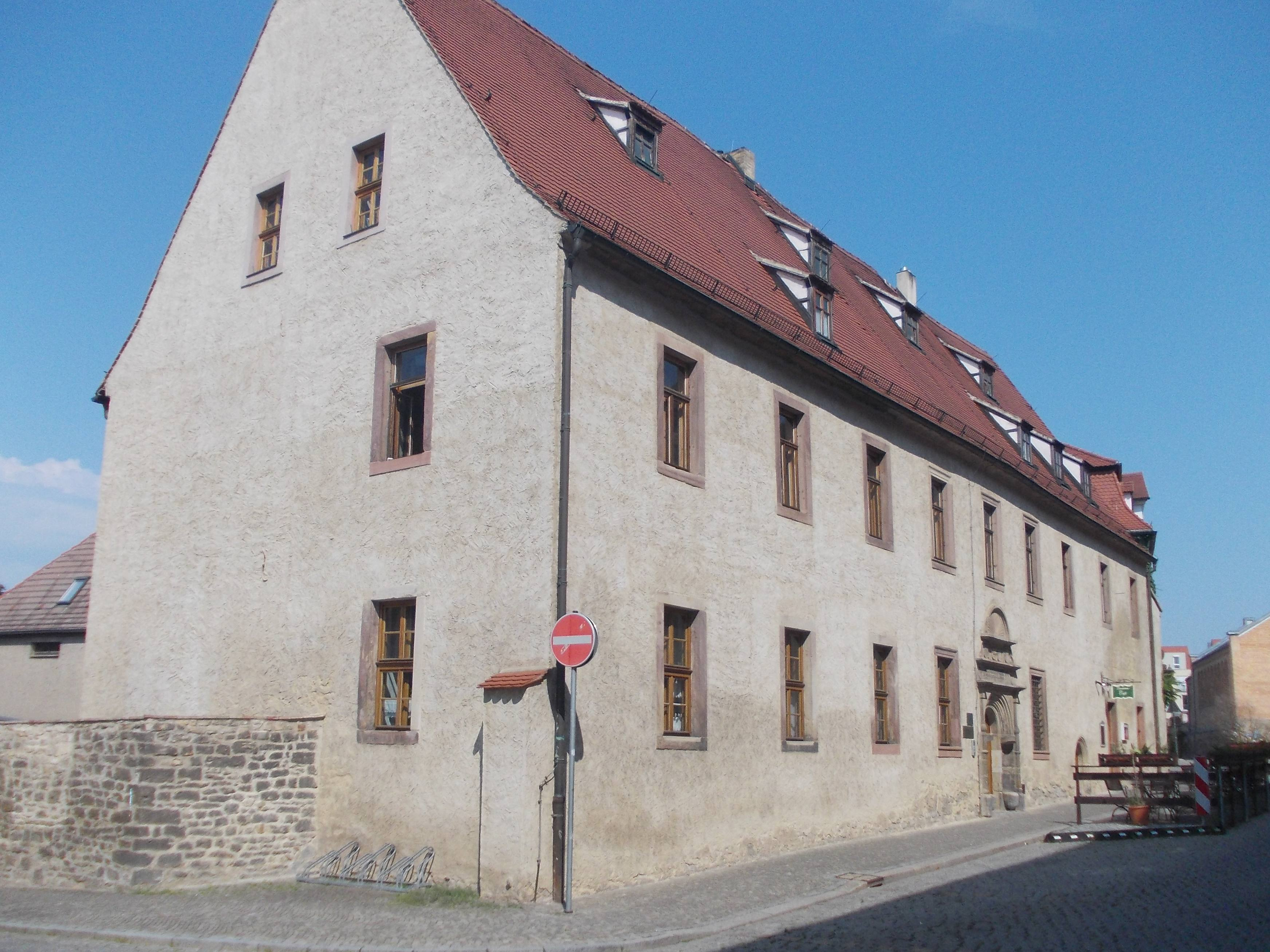 No. 8, Domstrasse in Merseburg (district: Saalekreis, Saxony-Anhalt)